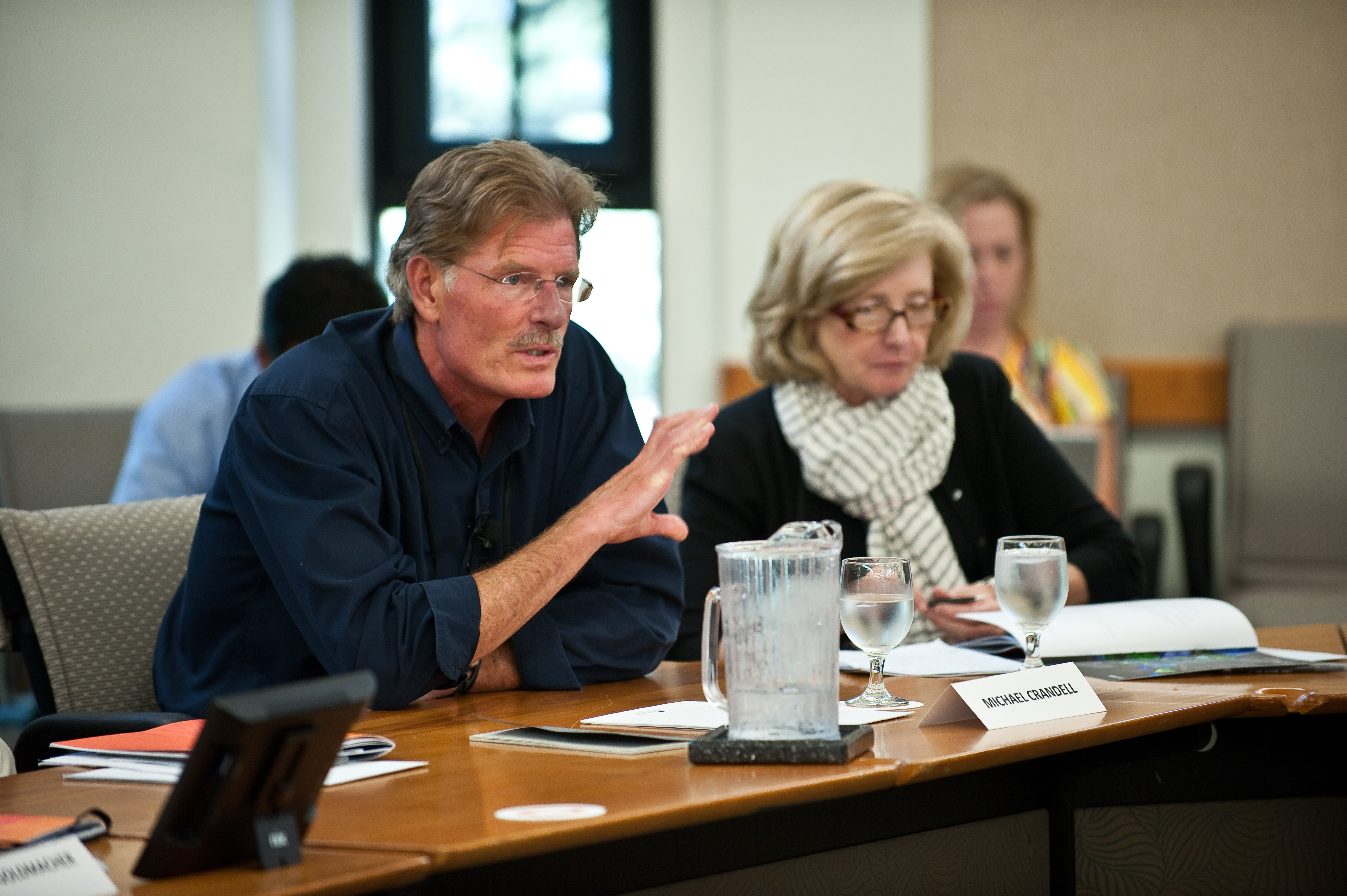 July 20th, 2011--Aspen, CO, USA Michael Crandell, Co-founder and CEO, RightScale speaks at "The Cloud Rises: The Latest From a Ten-Year-Old Trend" with Shekar Ayyar of VMWare, John Dillon of Engine Yard, Aaron Levie of Box, Lanham Napier of Rackspace, and JP Rangaswami of and the moderator Peter Goldmacher of Cowen and Co. at Fortune Brainstorm TECH at the Aspen Institute Campus. Photograph by Stuart Isett/Fortune Brainstorm TECH